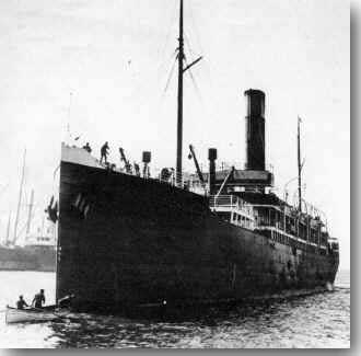 Black and white photo of SS Yongala taken before 1911.